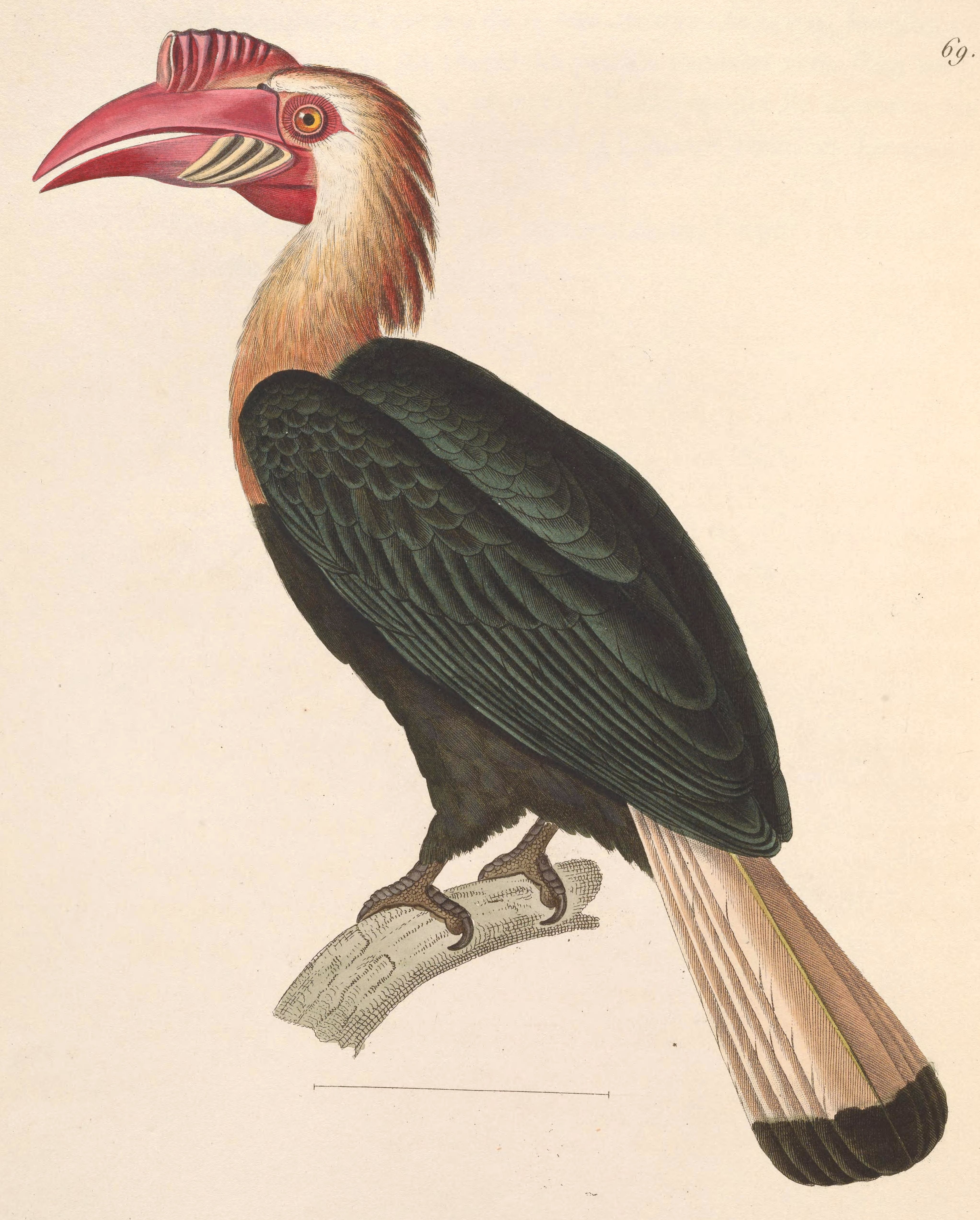 « Buceros sulcatus » = Aceros leucocephalus (Writhed Hornbill) - adult male